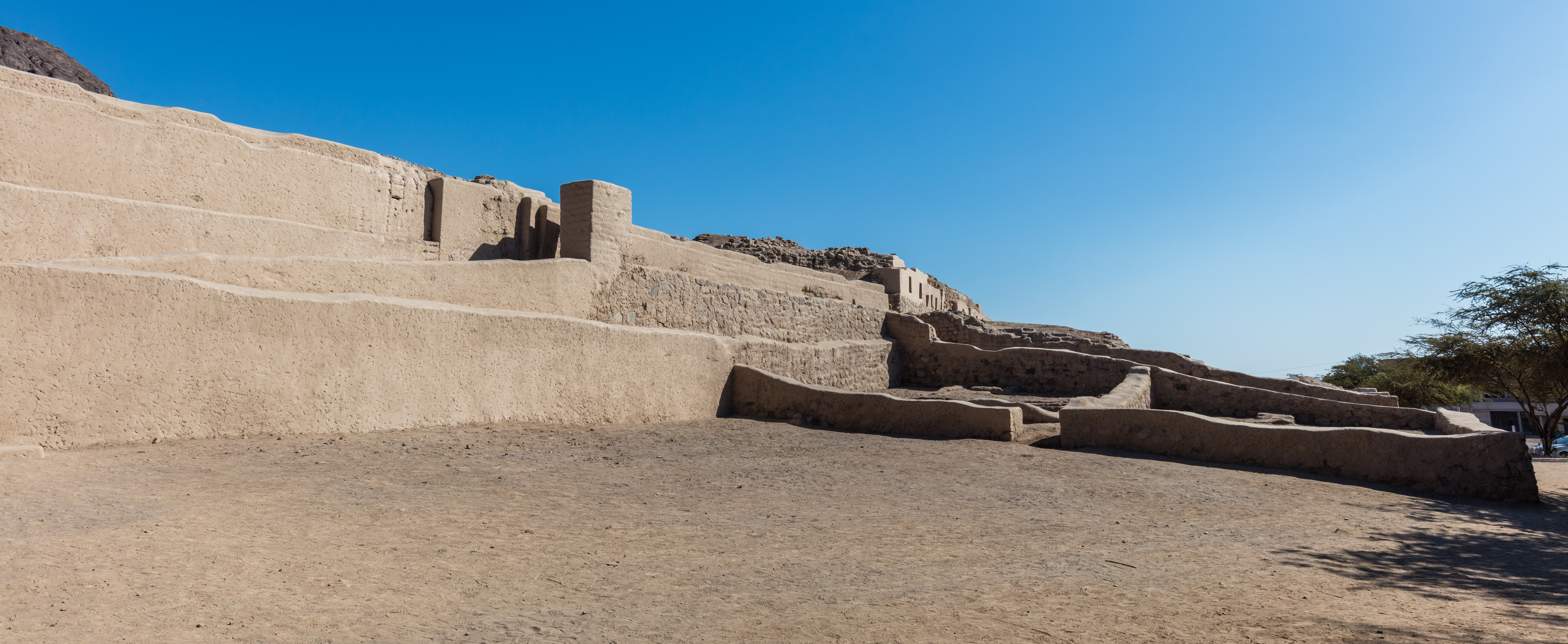 Los Paredones, Nazca, Peru